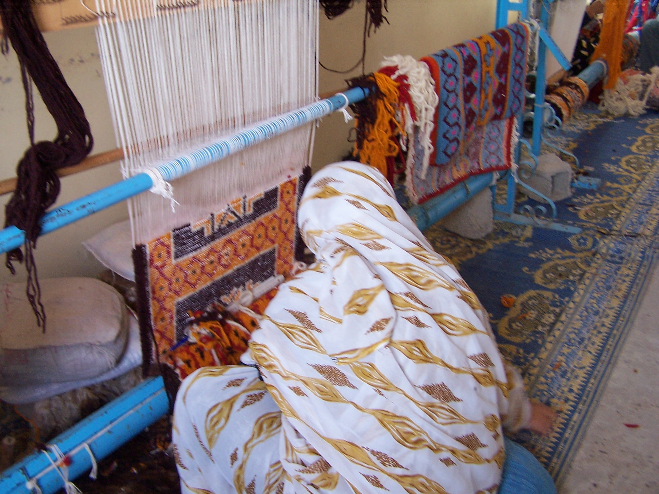 Woman working in a loom at a women handicraft association in Sous Massa National Park